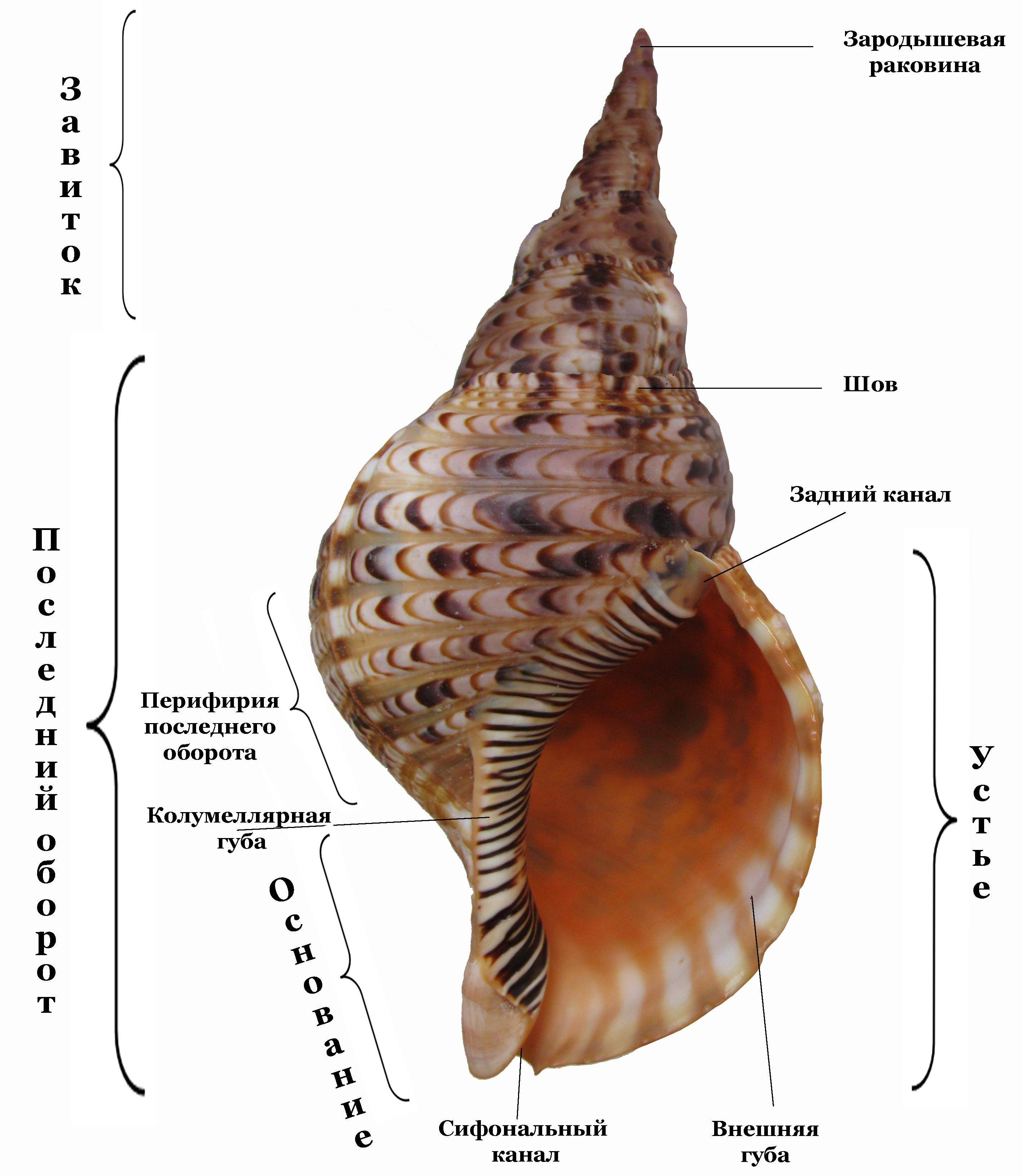 The shell of Charonia tritonis with captions in Russian.